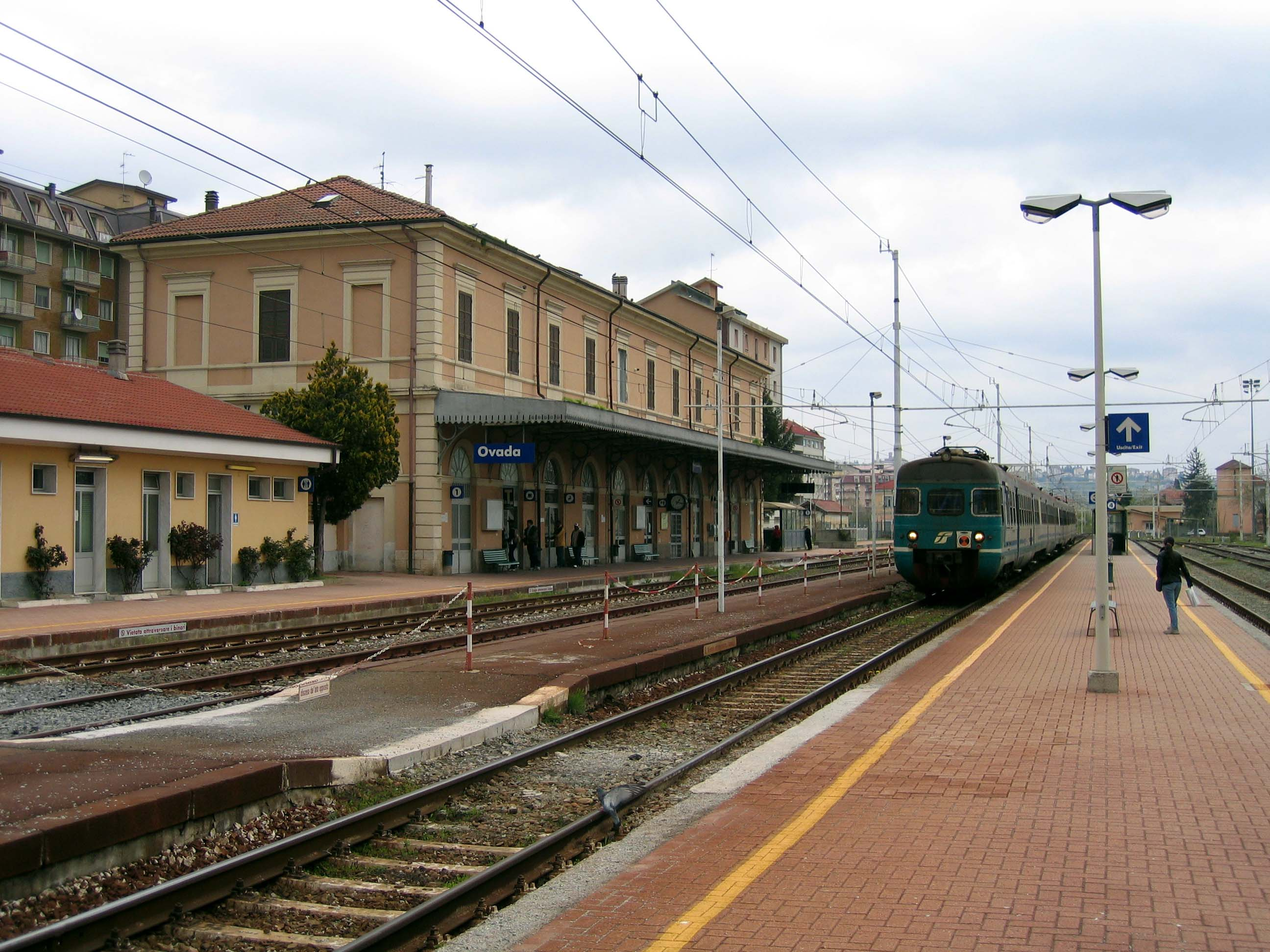 Ovada railway station